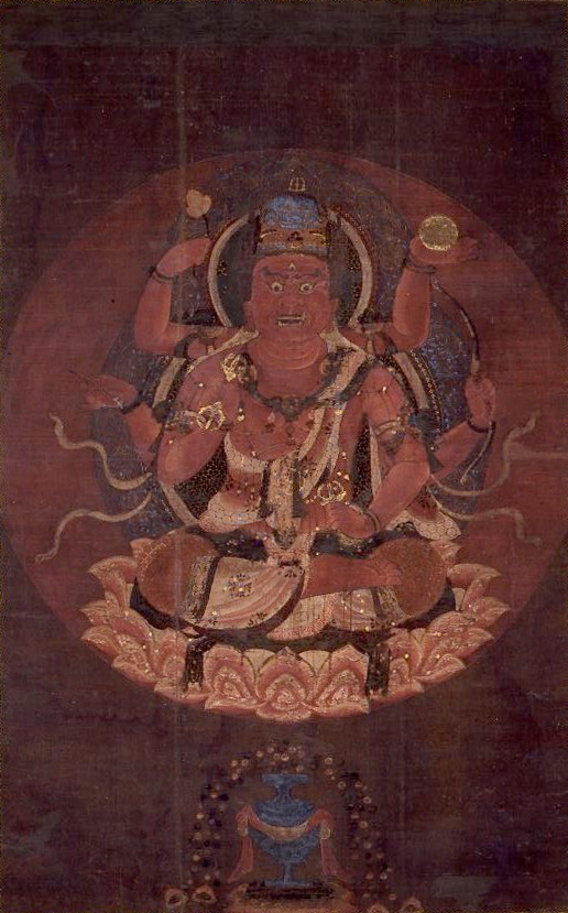 Aizen Myōō, Hosomi Museum, Kyoto, Japan